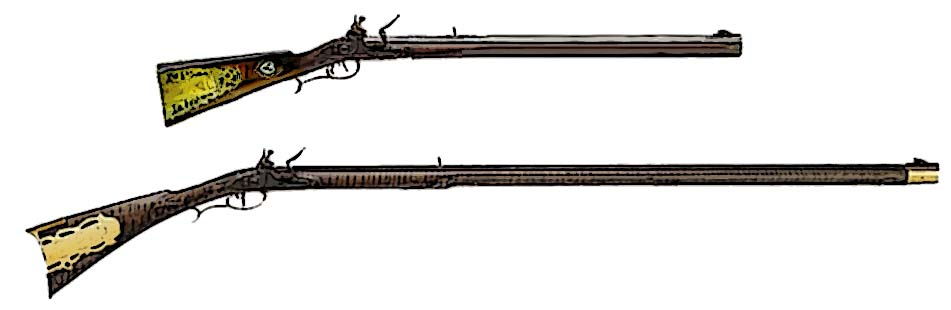 German Jäger and American Kentucky rifles.